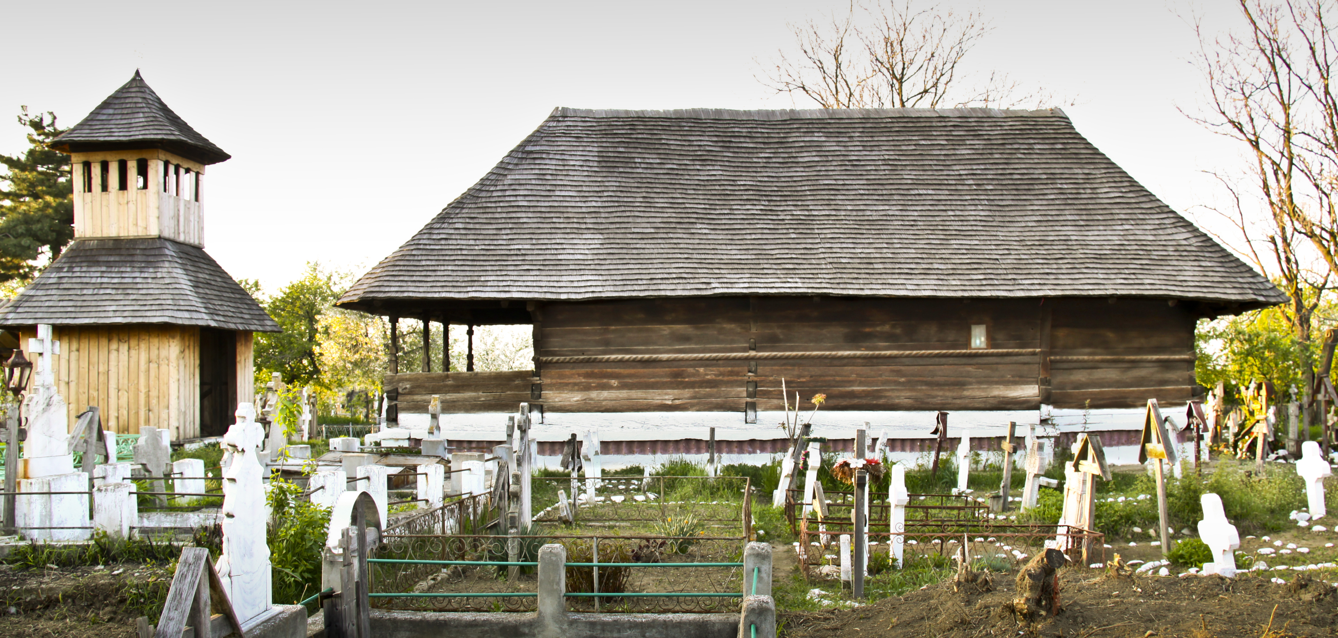 Ştefăneşti-Şcoala, Vâlcea county, Romania: the wooden church.